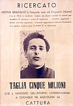 Gratzianu Mesina